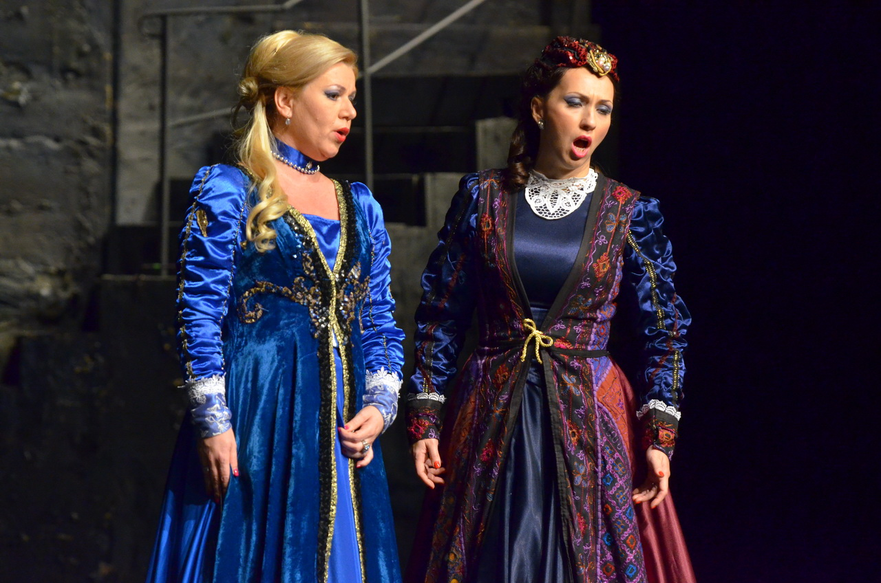 "Lucia di Lammermoor", а tragic opera in three acts by Gaetano Donizetti. Salvadore Cammarano wrote the Italian-language libretto loosely based upon Sir Walter Scott's historical novel The Bride of Lammermoor; directed by Plamen Kartalov (Bulgaria); Opera of the SNT, 2014/15; Darija Olajoš Čizmić, Jelena Končar Srpski (latinica): „Lučija od Lamermura”, tragična opera u tri čina Geatana Donicetija; Libreto slobodno sačinio Salvatore Kamarano prema romanu Nevesta od Lamermura Valtera Skota; režija Plamen Kartalov (Bugarska); Opera SNP-а, 2014/15; Darija Olajoš Čizmić, Jelena Končar Српски (ћирилица): „Лучија од Ламермура“, трагична опера у три чина Геатана Доницетија; Либрето слободно сачинио Салваторе Камарано према роману Невеста од Ламермура Валтера Скота; режија Пламен Карталов (Бугарска); Опера СНП-а, 2014/15; Дарија Олајош Чизмић, Јелена Кончар